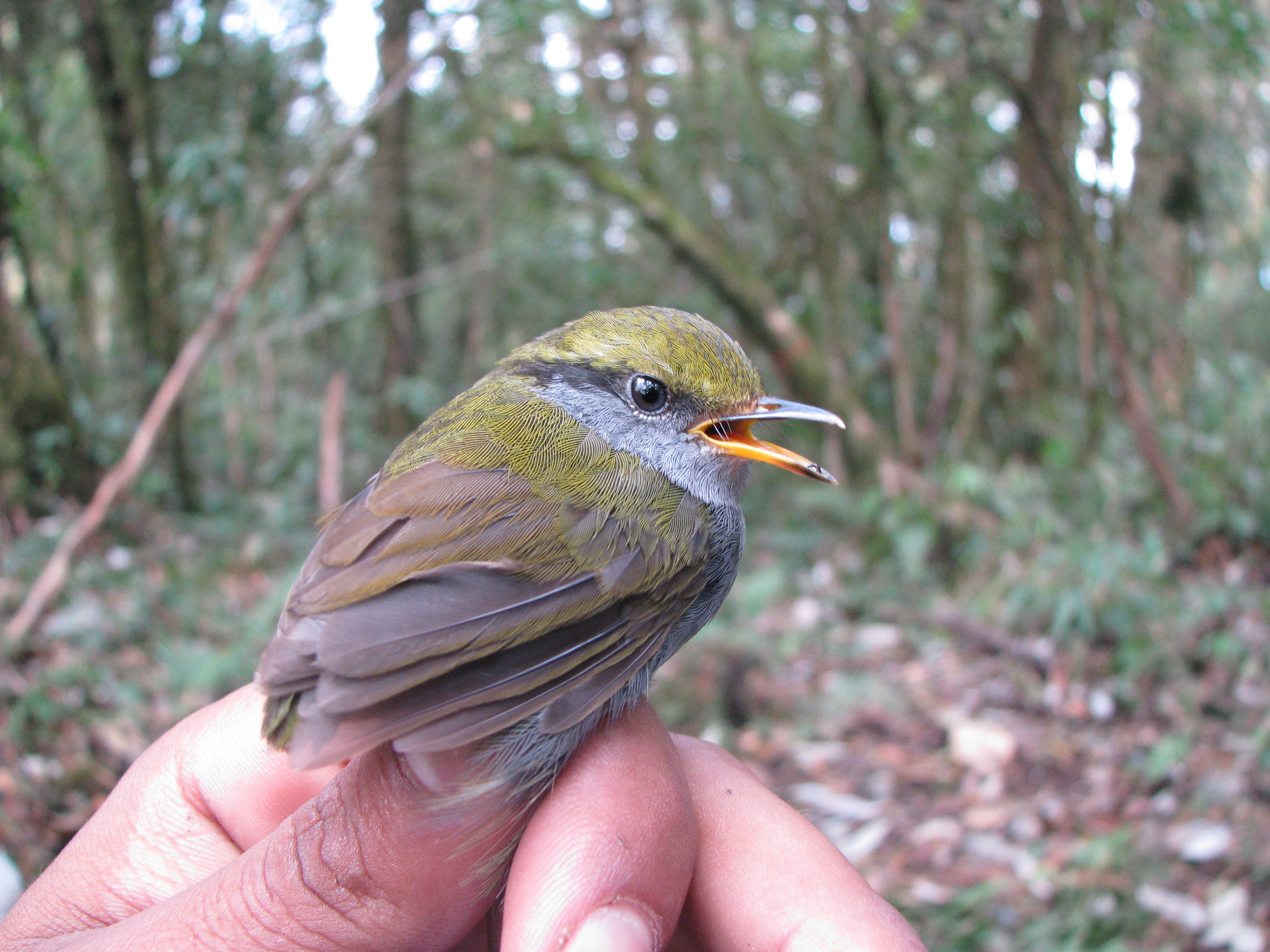 A Grey-bellied Tesia. This bird was netted and ringed in Eaglenest Wildlife Sanctuary, Arunachal Pradesh, India.